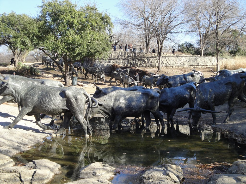 Cattle Drive sculpture in Pioneer Plaza located in downtown Dallas, Texas